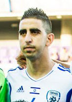 . Marwan Kabha, UEFA U21s Football championships in Israel between Israel & Norway Photo By David Katz